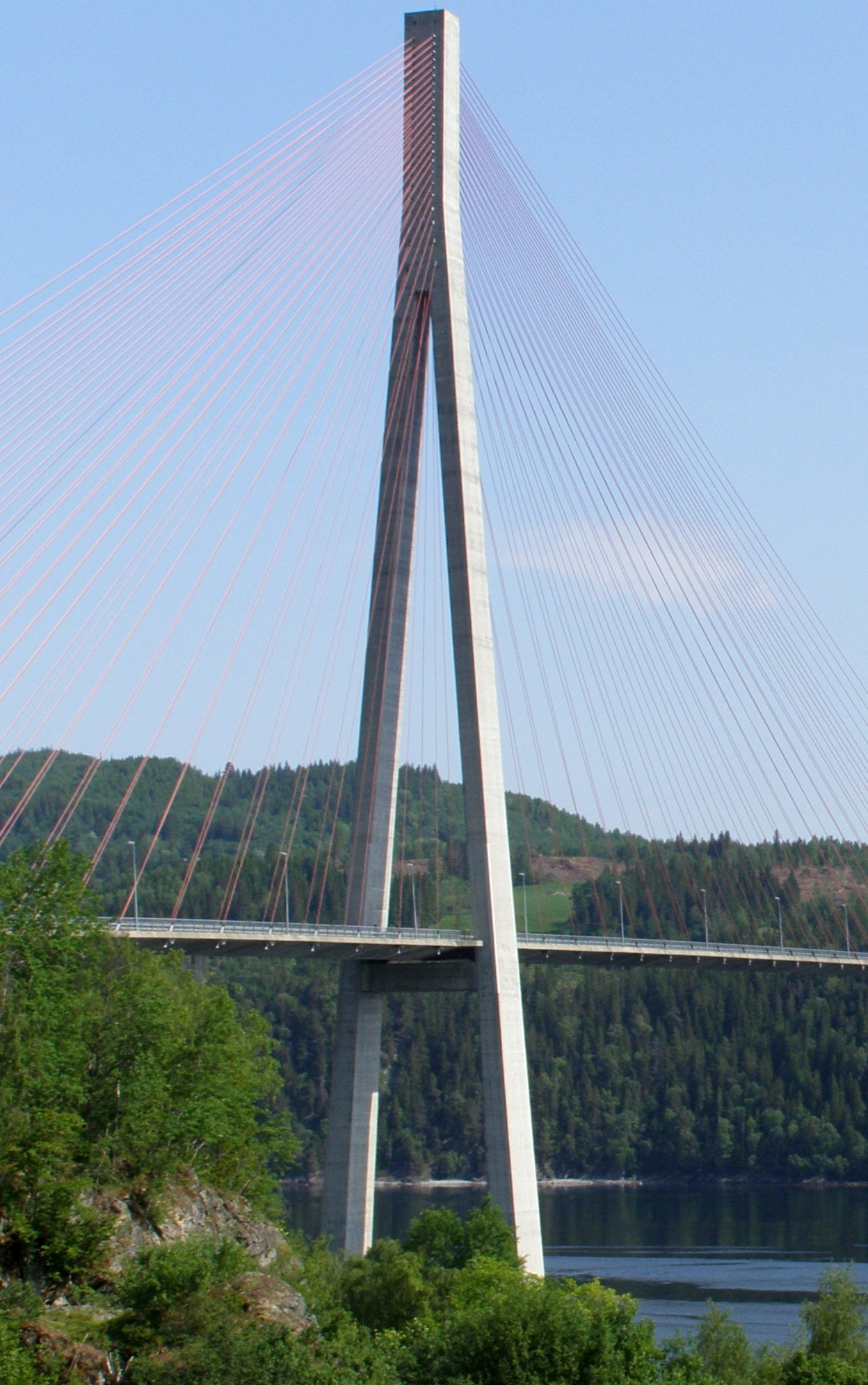 The Skarnsund Bridge is a 530 m main span long concrete cable-stayed bridge that crosses the sound Skarnsundet in Norway